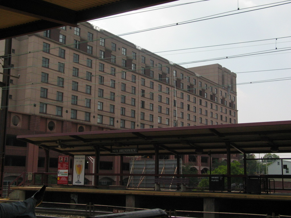 New Brunswick station eastbound track, where NJ Transit and Amtrak trains stop.